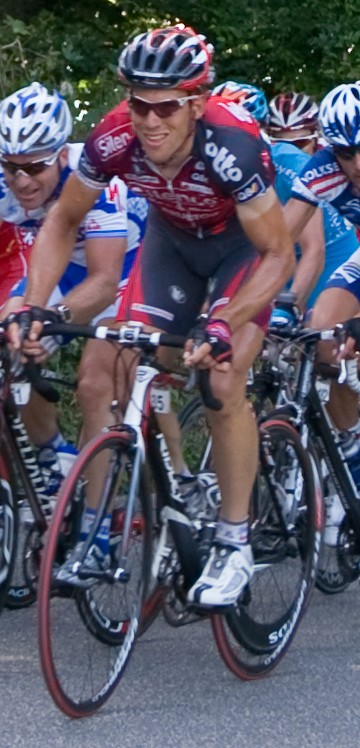 Front: Maarten Tjallingii (Silence-Lotto), Tour de Suisse 2008.